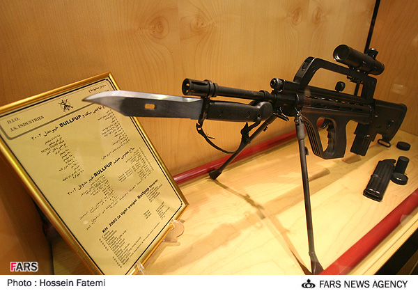 A KH-2002 is seen in a display case during an exhibition hosted by Iran's Defense Industry Organization (DIO).